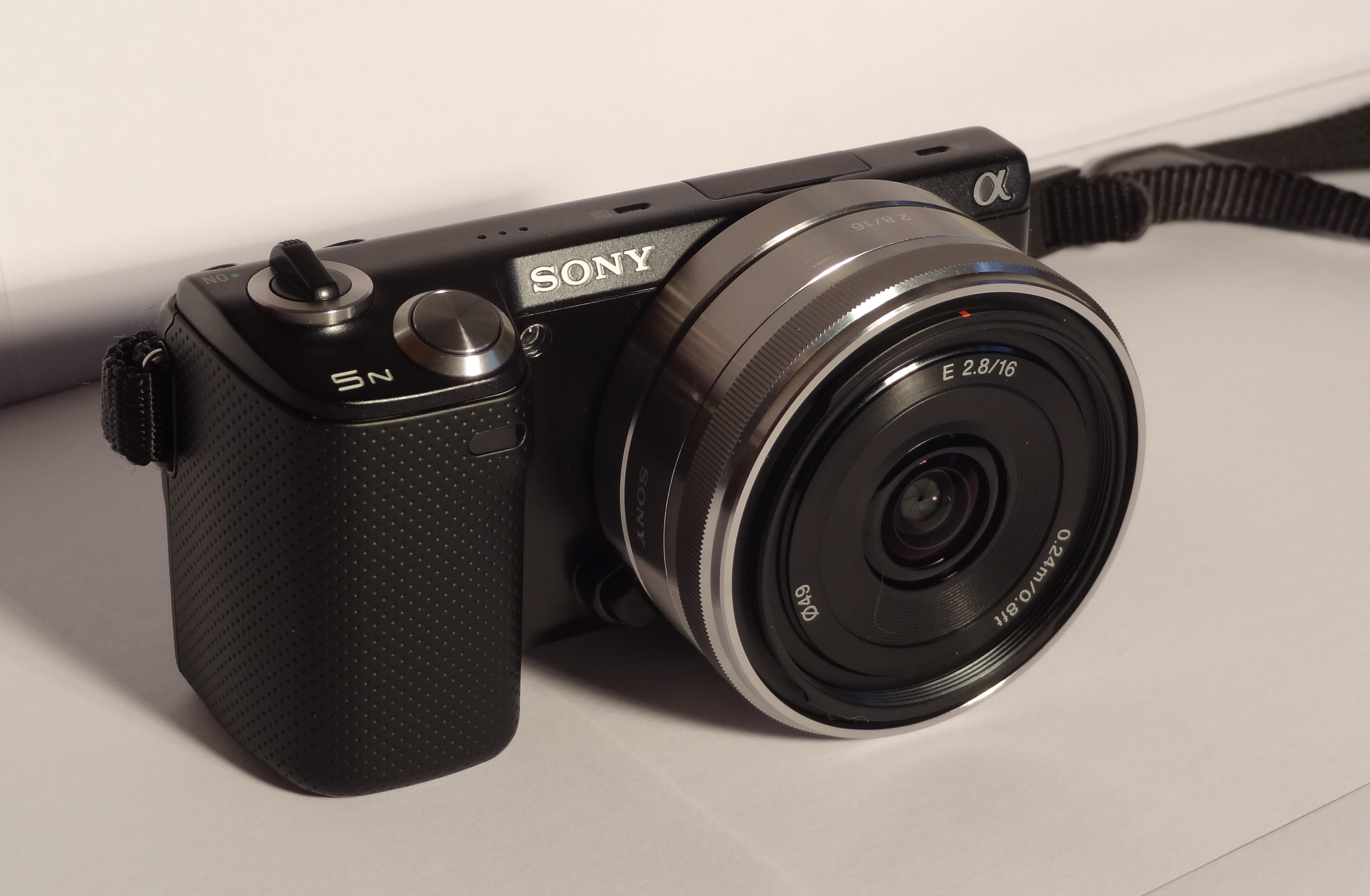 Sony NEX-5N with pencake 16 mm.